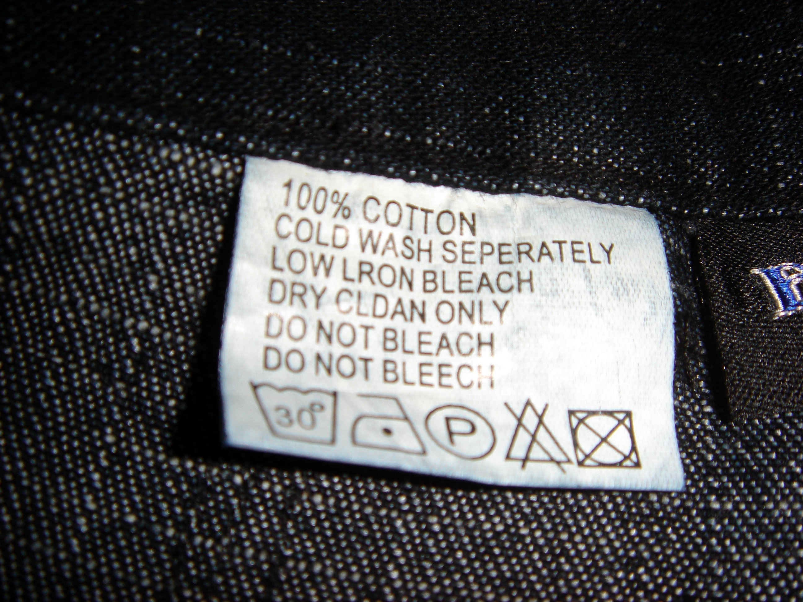 From a pair of (allegedly Italian-made) shorts purchased in Huwei, Taiwan. You should wash it in cold water -- but dry clean only. It's not meant to be bleached -- or even bleeched -- but on the other hand, a low LRon bleach is okay. (I'm guessing a high LRon bleach would cause the fabric to become enturbulated with entheta.)